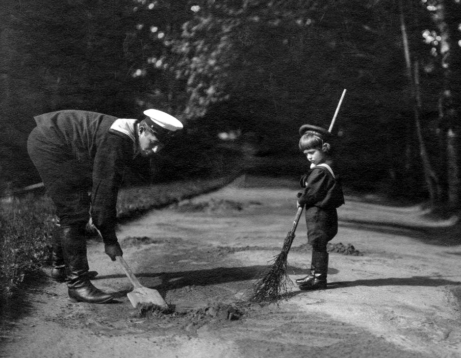 Tsarevich Alexei Nikolaievich of Russia on hands of his servant Mr. Klimenty Nagorny. Tsarskoe Selo. 1907